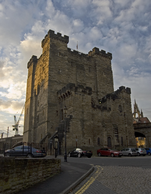 Newcastle: Castle Keep